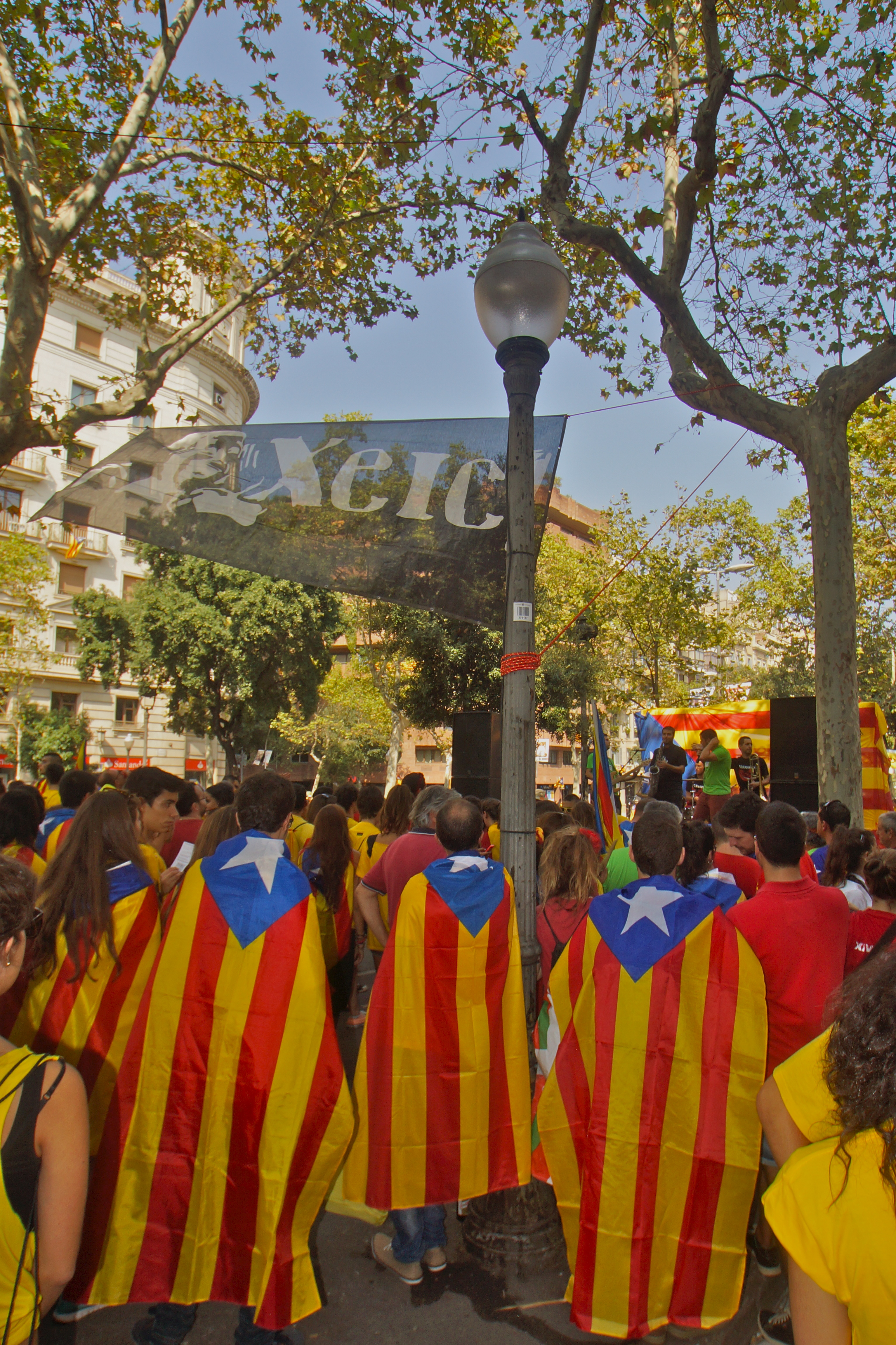 Barcelona (Avinguda Diagonal), Catalonia: The band Xeic!